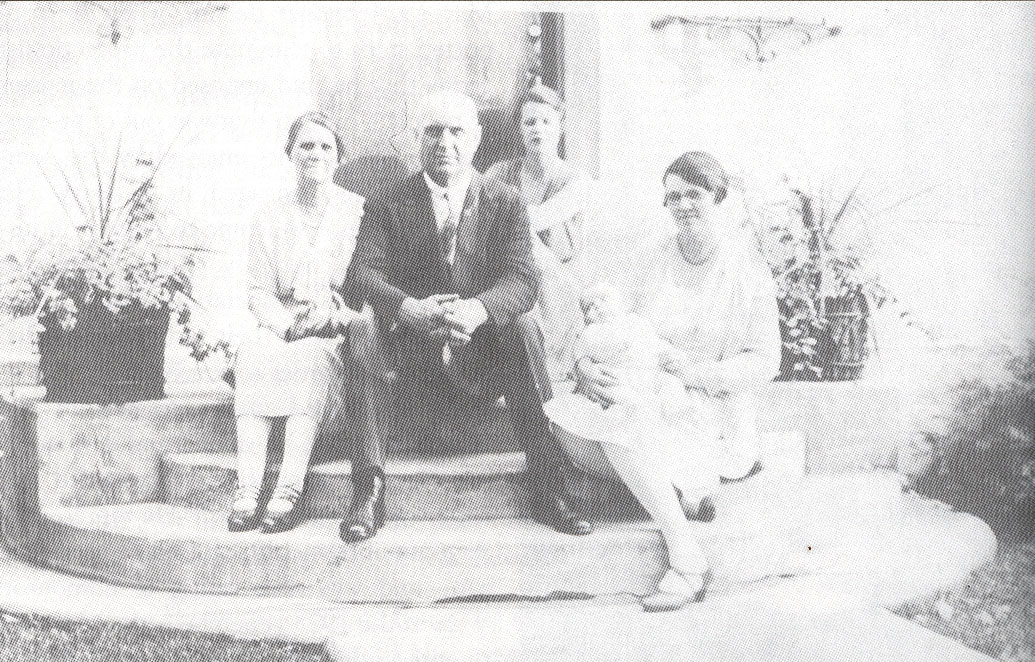 Alberta Premier Charles Stewart with his family. Left to right: Jane Stewart (wife), Charles Stewart, Rose Stewart (daughter), Mrs. Chris Marshall (daughter), Stewart Marshall (grandson)